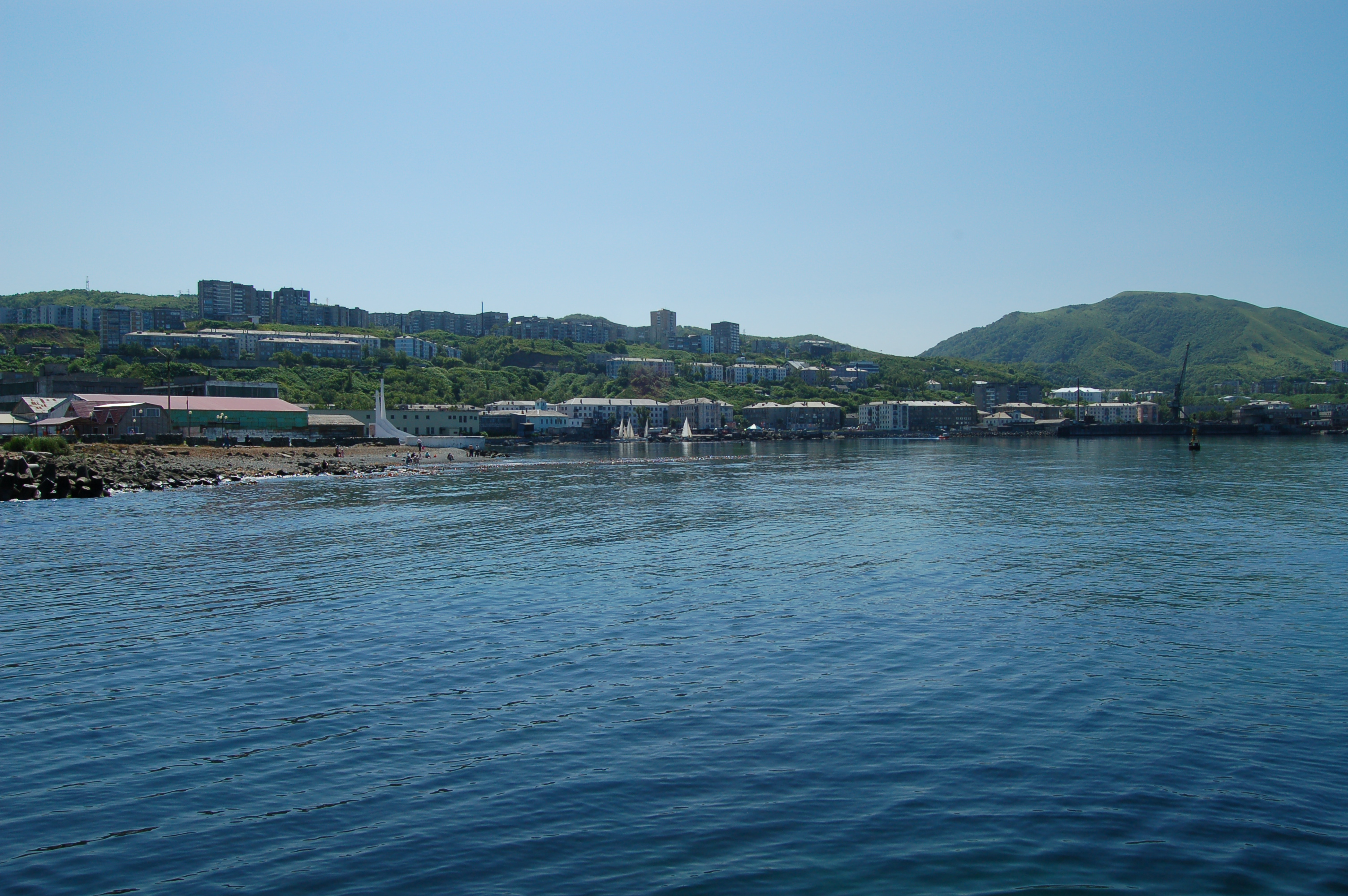 Sakha, Location: Kholmsk